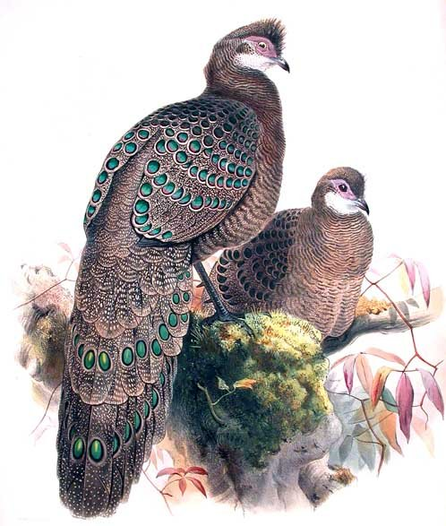 Grey Peacock-Pheasant (Polyplectron bicalcaratum)